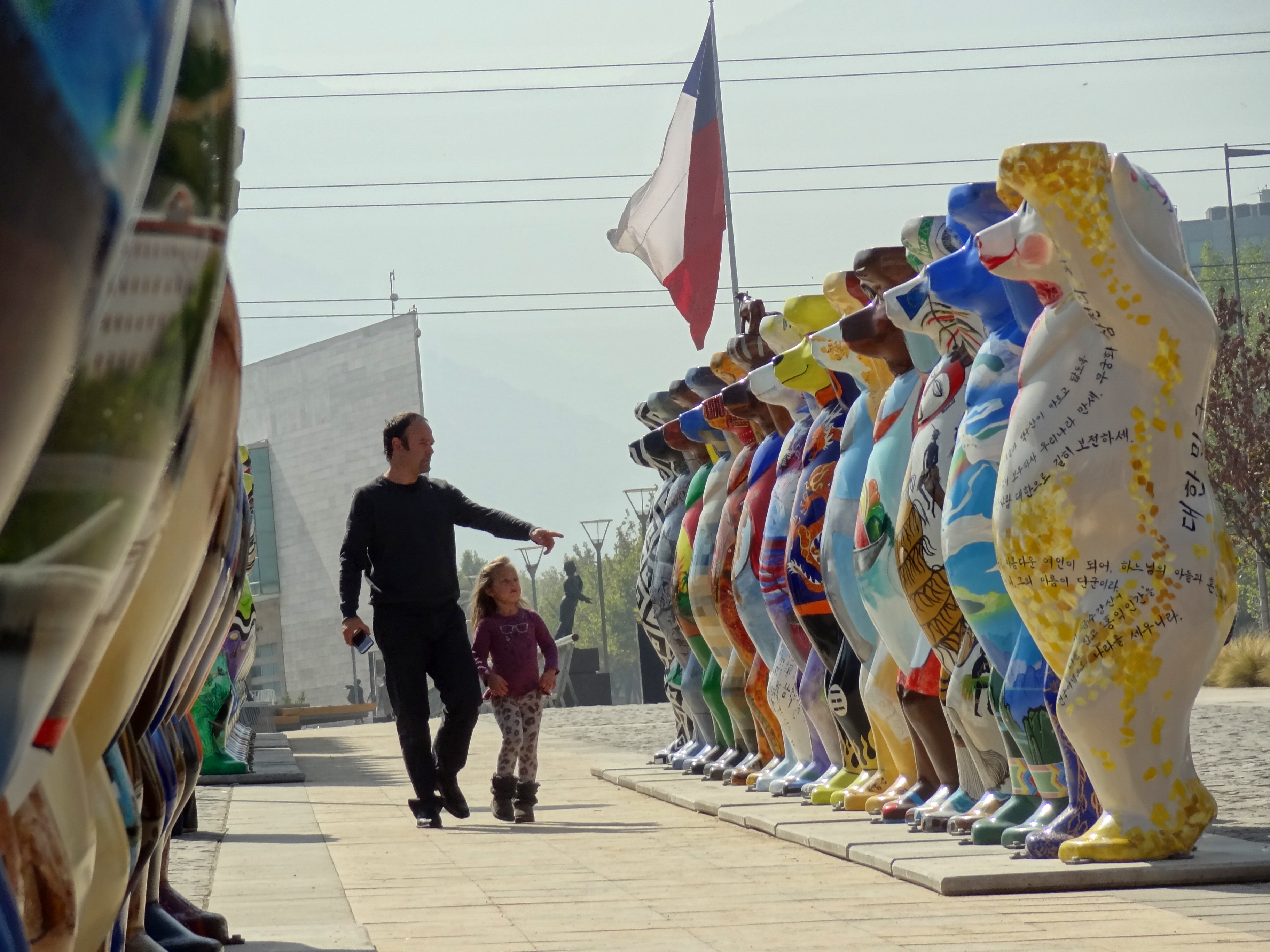 Buddy Bears in Santiago de Chile, Vitacura (2015)